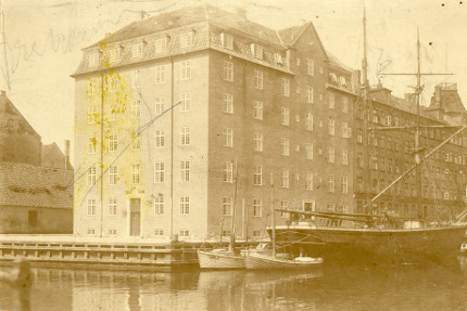 Princess Marie's Home for Old Seamen and Seamen's Widows in Christianshavn, Copenhagen, Denmark